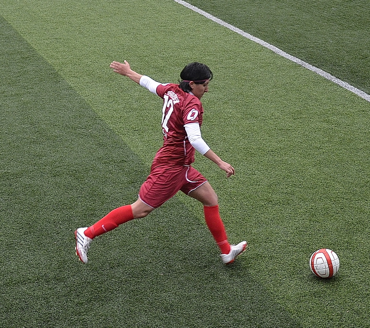 Çiğdem Belci for Ataşehir Belediyespor in the 2013-14 season